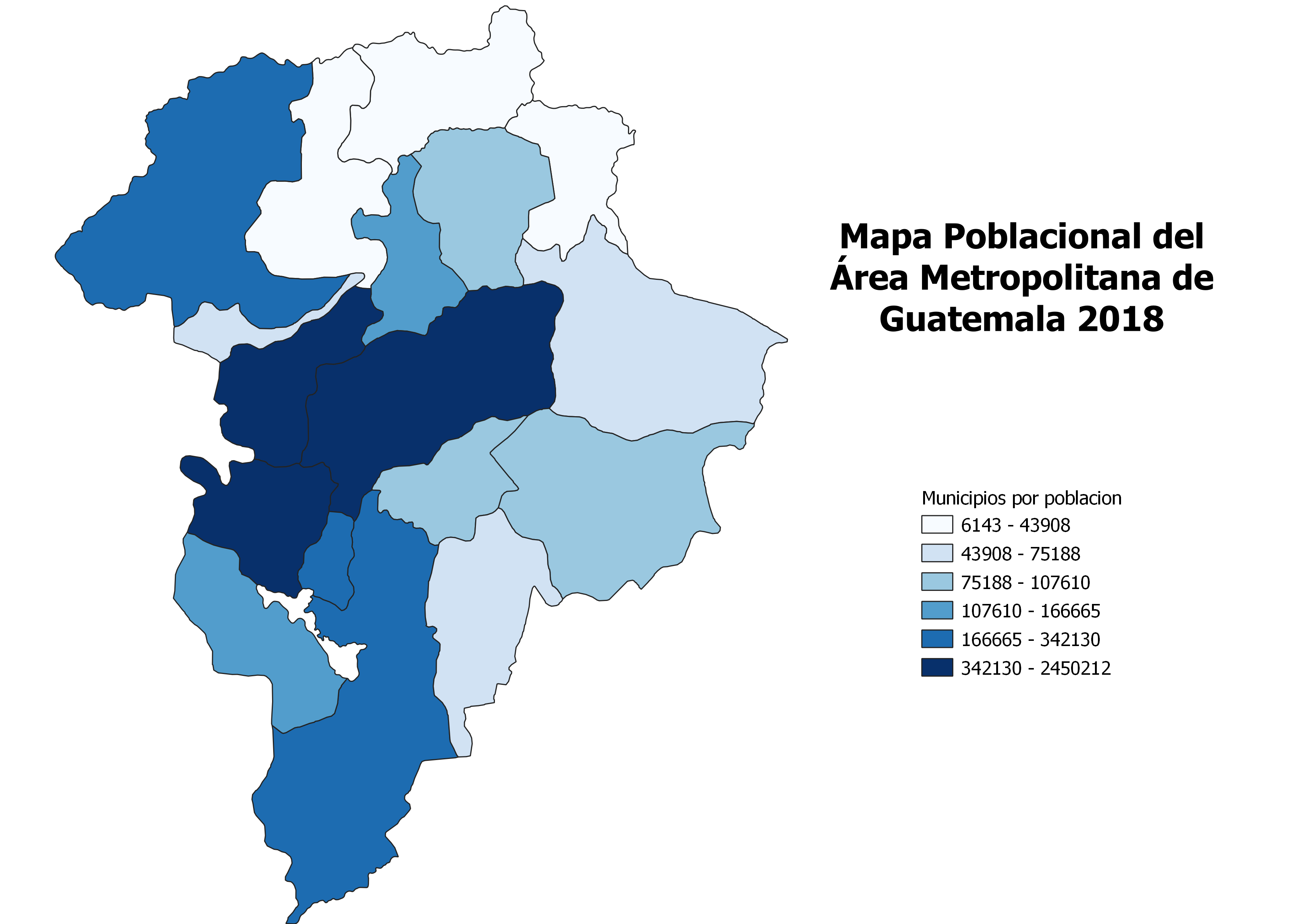 Población del Área Metropolitana de Guatemala por municipio, datos según el INE 2018